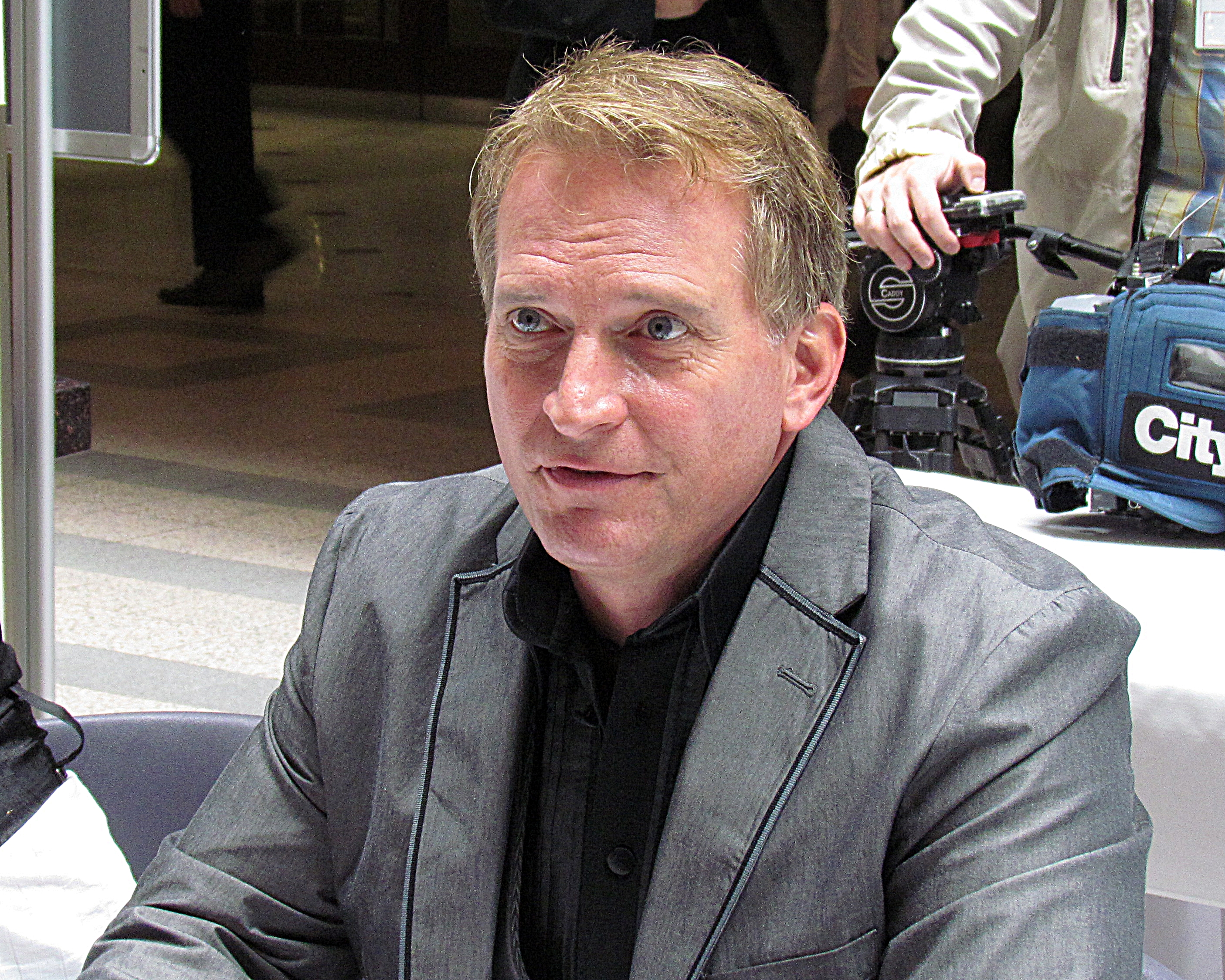 Rex Smith, American actor and singer, signing autographs at the opening of SHE lingerie, in Calgary, Alberta, Canada.